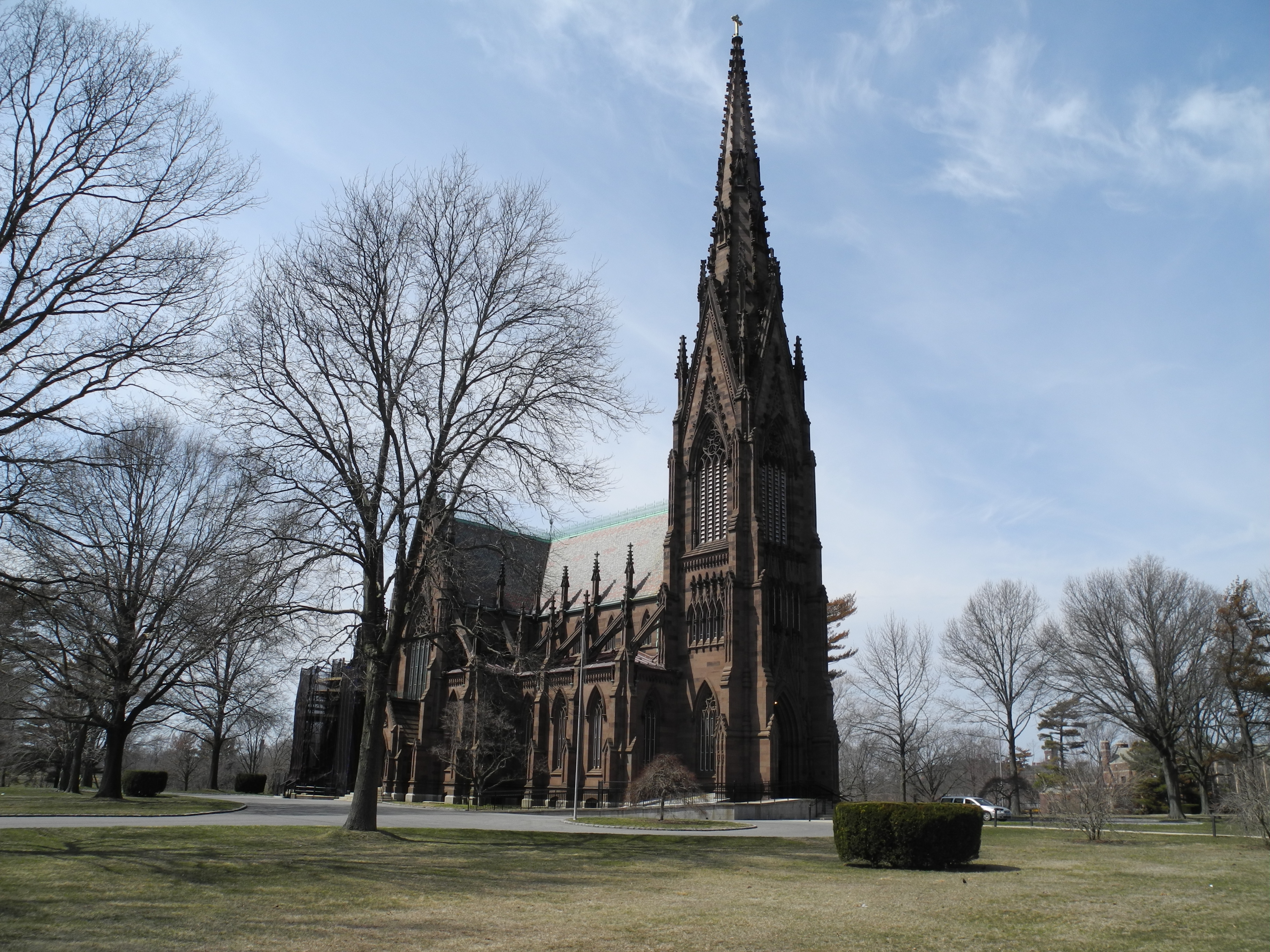 AT Stewart Era Buildings in Garden City, specifically the Cathedral of the Incarnation